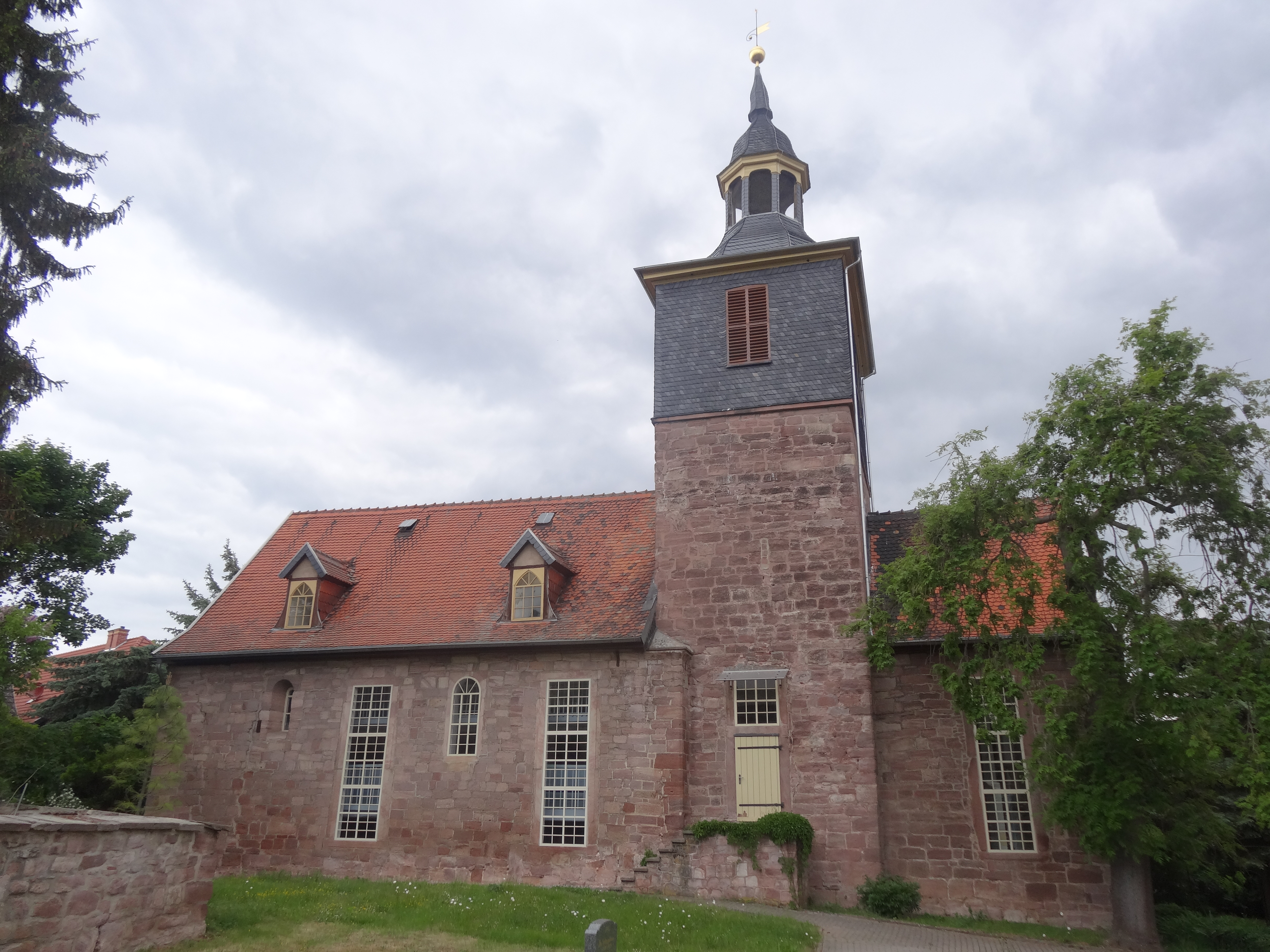 Church in Udersleben, Thuringia, Germany